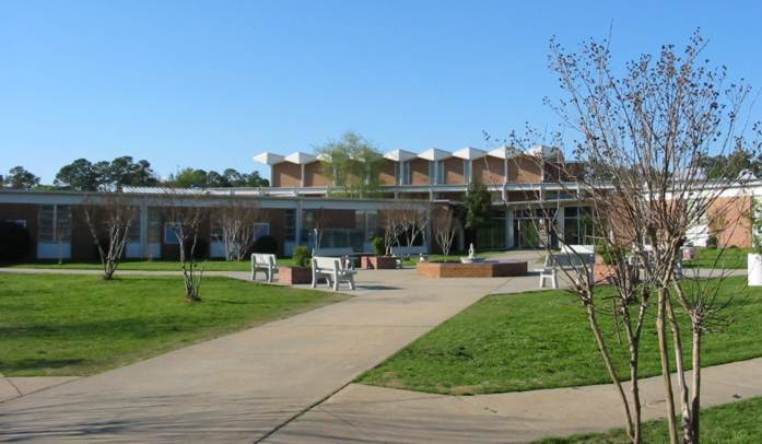 Photograph of Auburn High School, Auburn, Alabama.